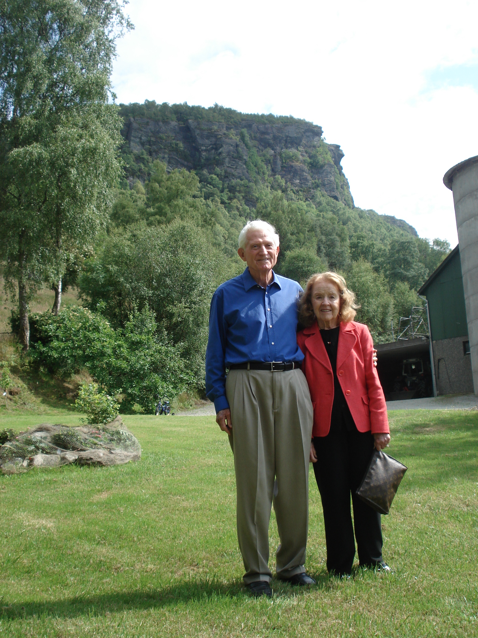 On the face of the mountain behind Gene Myron Amdahl and and his wife, Marian, there is a profile of a face, called the "Amdahl troll". Photographed at Amdahl, Norway.